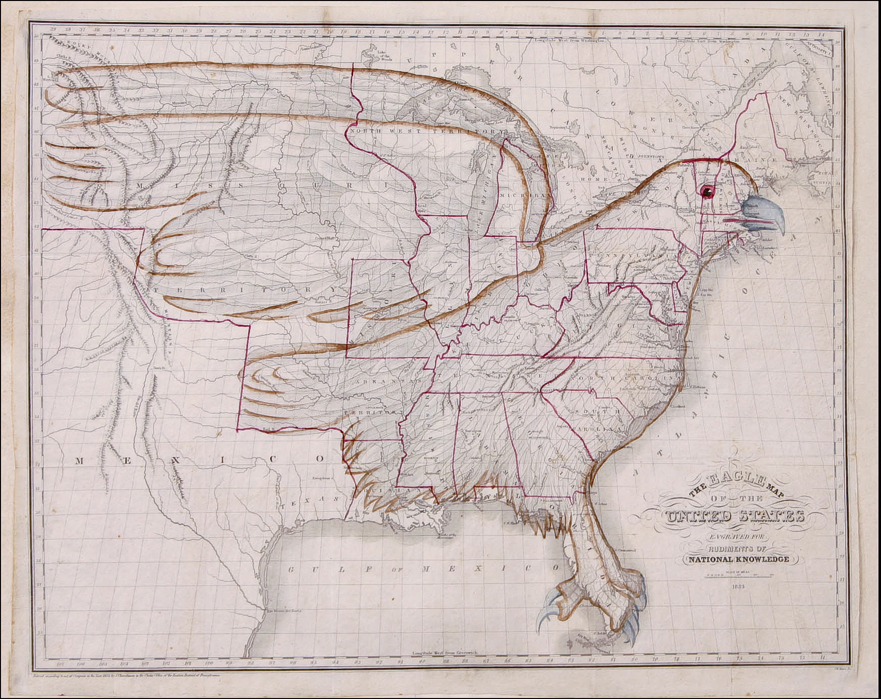 Map of the territory of the United States in 1833 (ignoring the claim on Oregon) with lines added to form the shape of an Eagle. This is "The Eagle Map of the United States" from a book entitled Rudiments of National Knowledge, Presented to the Youth of the United States, and to Enquiring Foreigners. By a Citizen of Pennsylvania published by E.L. Carey & A. Hart in Philadelphia, 1833. A teaching wall map.